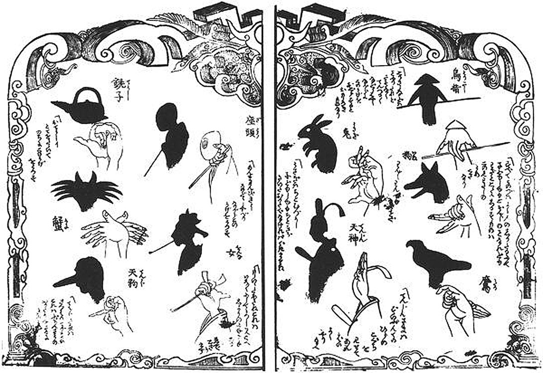 Shadow play of the Netherlands "Otsuriki" (和蘭影絵 於都里綺, Japanese picture)